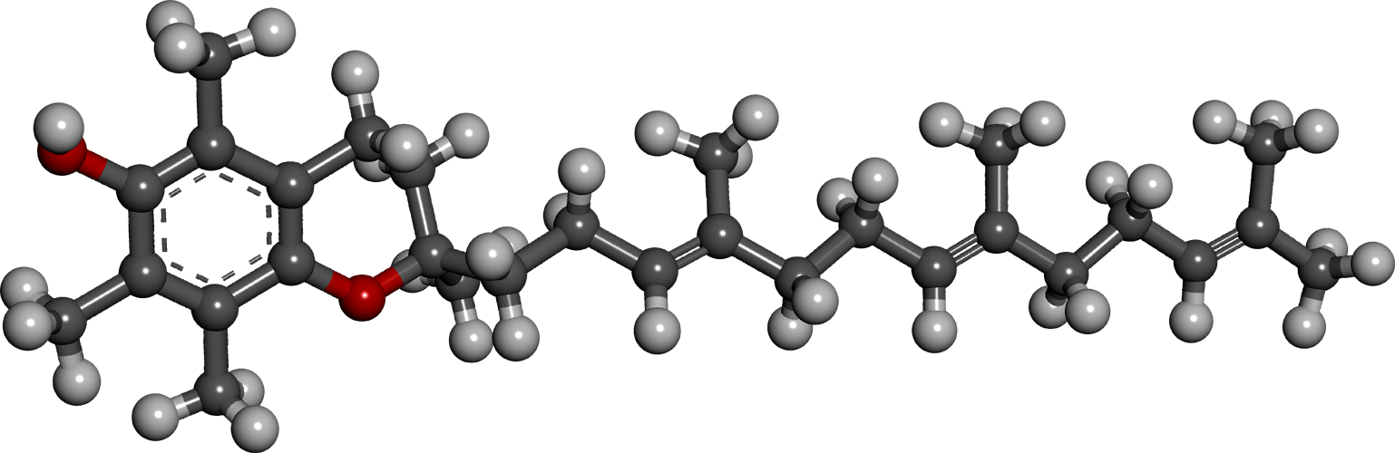 A ball and stick model of the alpha-tocotrienol molecule.